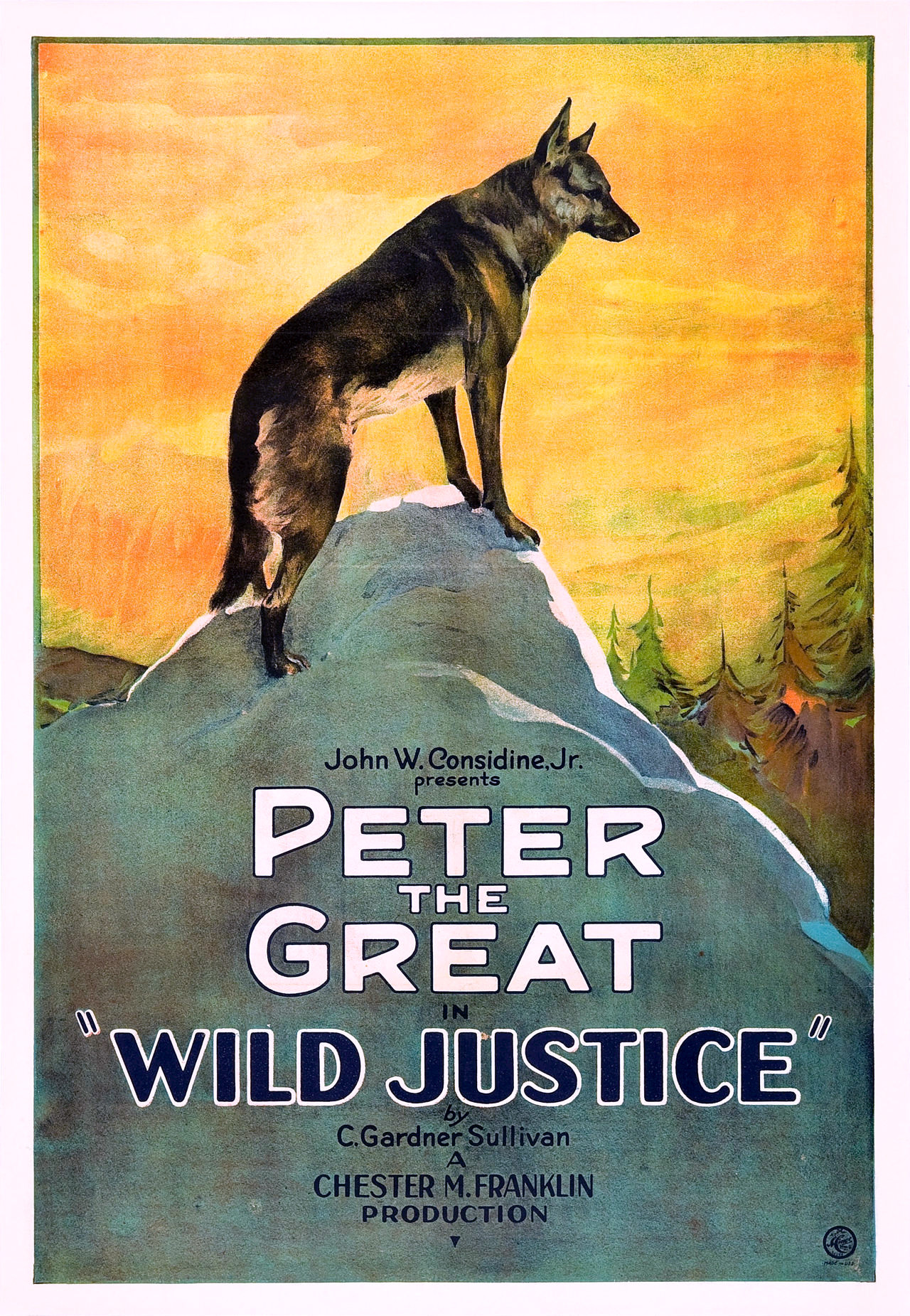 Poster for the 1925 film Wild Justice. There are no copyright marks as can be seen at the links. At bottom right is the logo of the Miner Litho Company of New York (they printed the poster) and Made in USA.